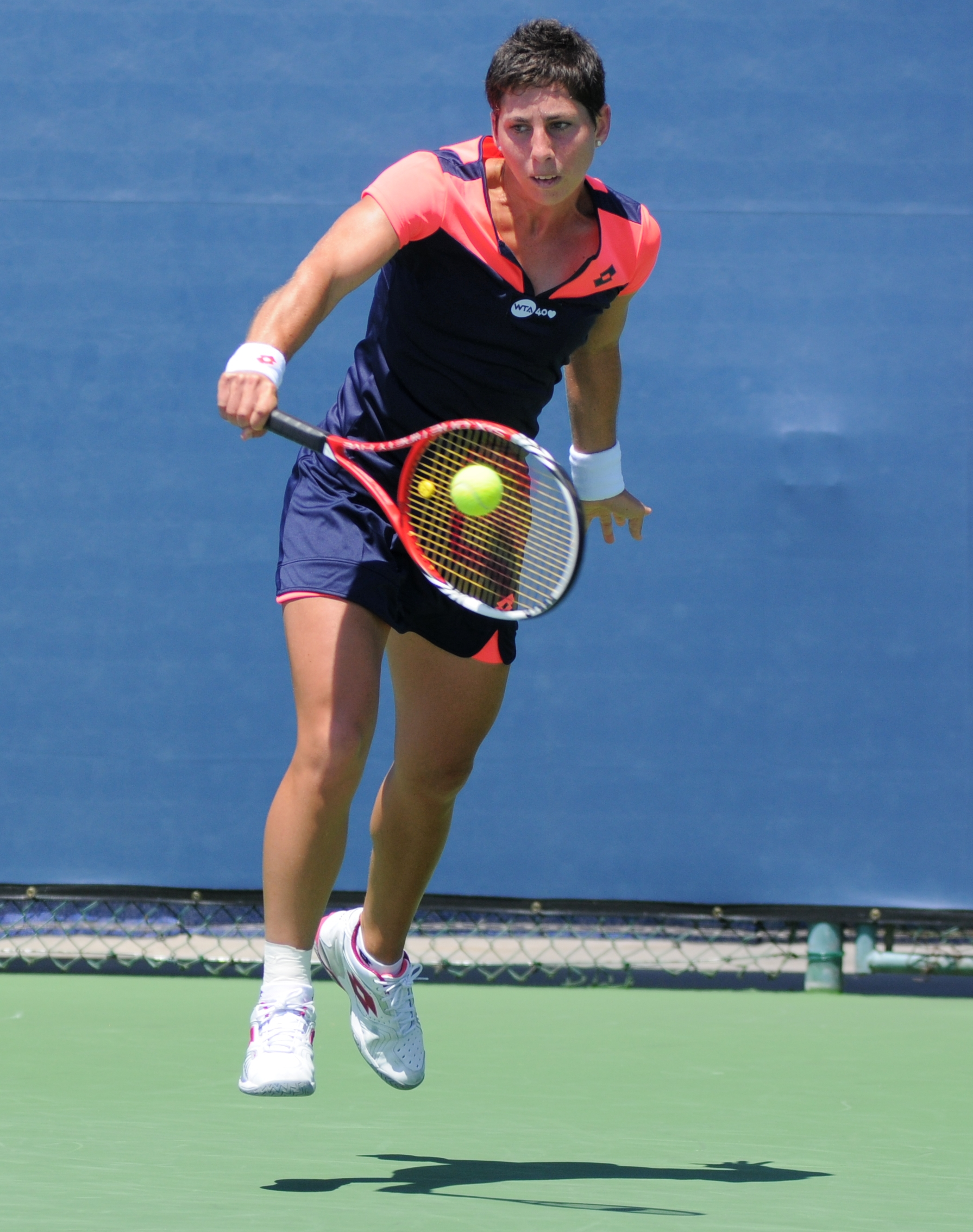 2013 Southern California Open - 1st Round